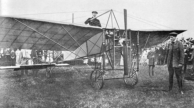 Ernest Failloubaz and his Blériot aircraft, René Grandjean to the right, at the flight meeting in Avenches (VD) on 7 October 1910